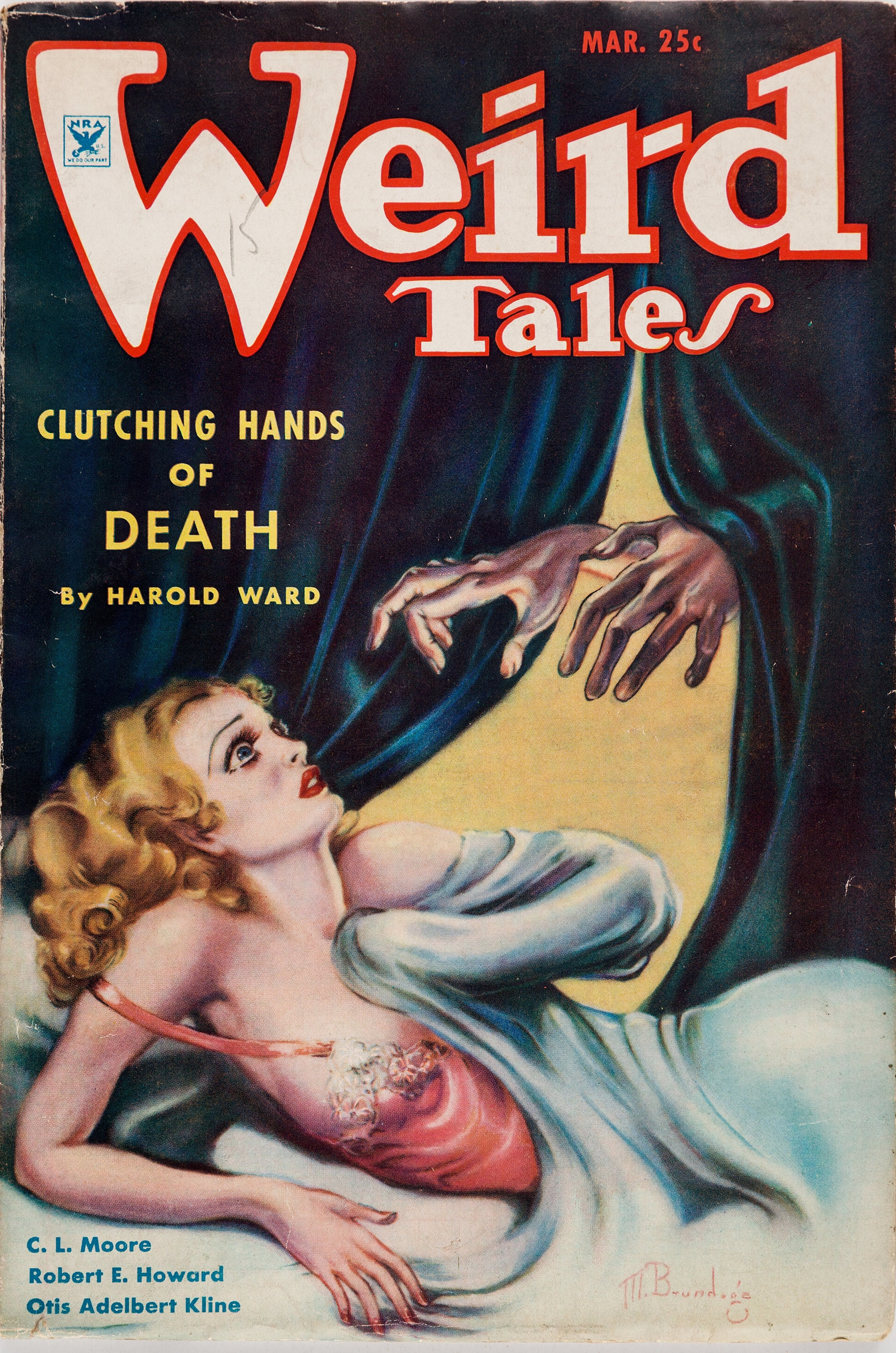 Cover of the pulp magazine Weird Tales (March 1935, vol. 25, no. 3) featuring Clutching Hands of Death by Harold Ward.